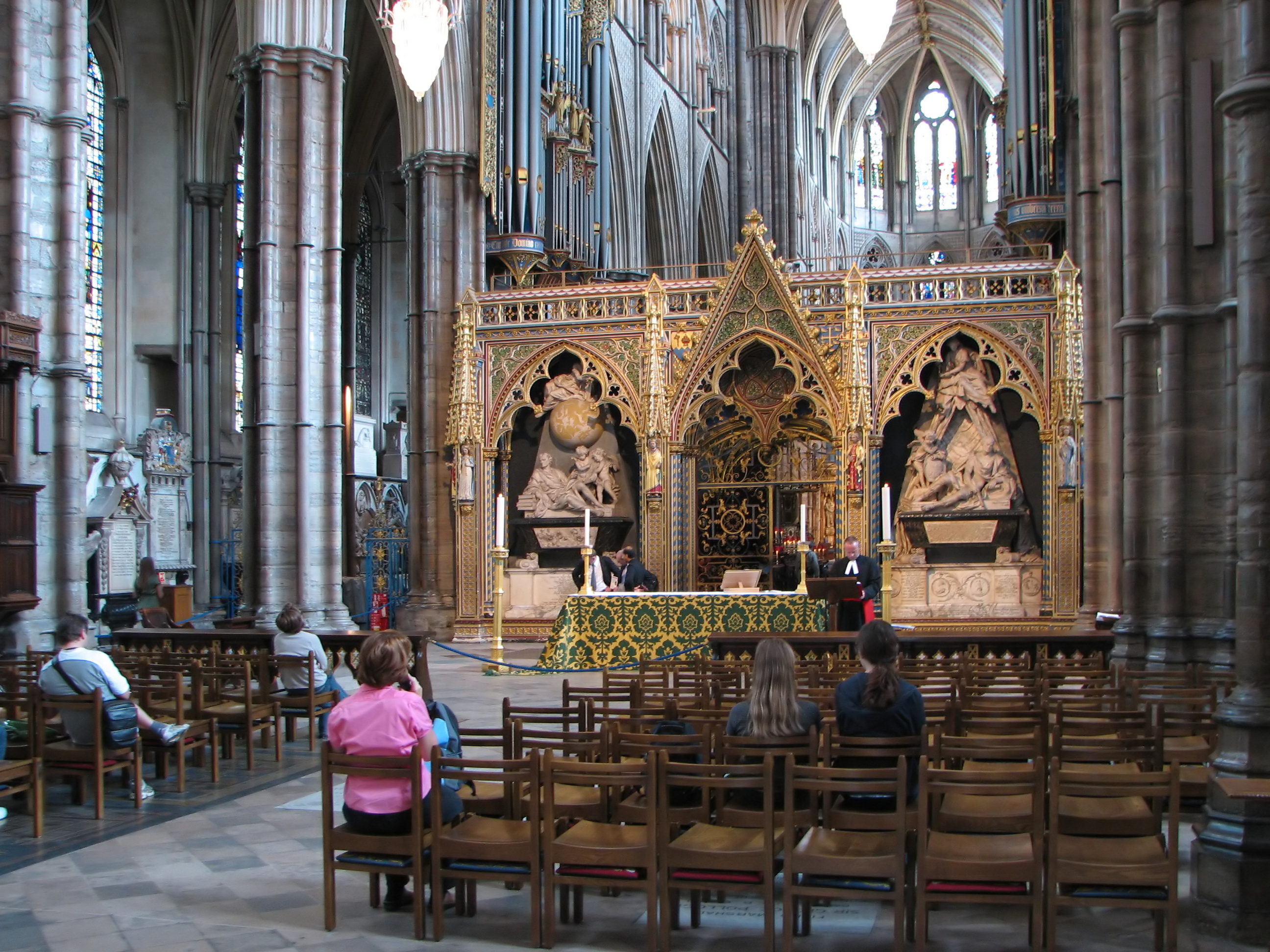 Interior of Westminster Abbey, London, England